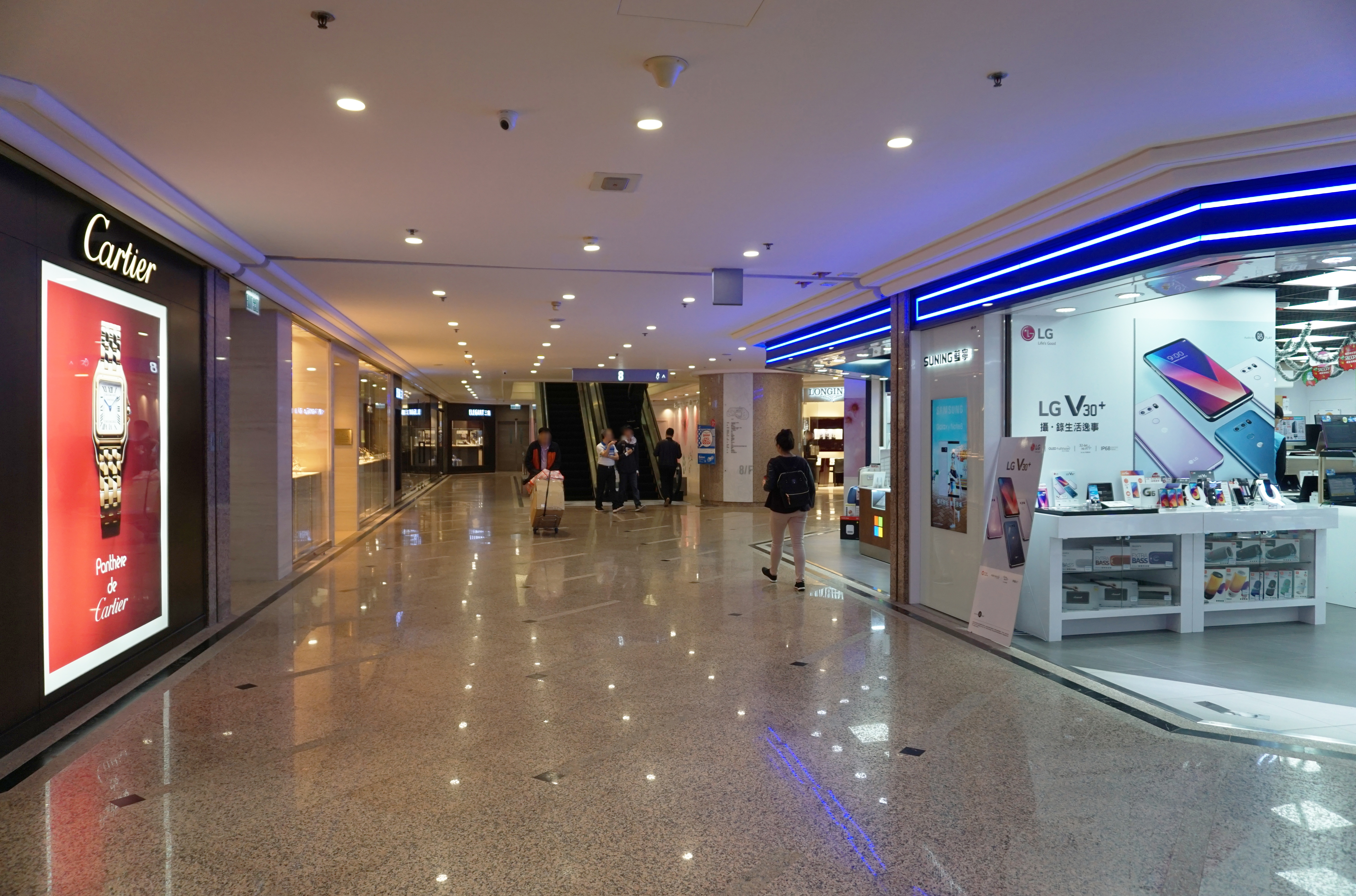 Times Square in Causeway Bay, Hong Kong.